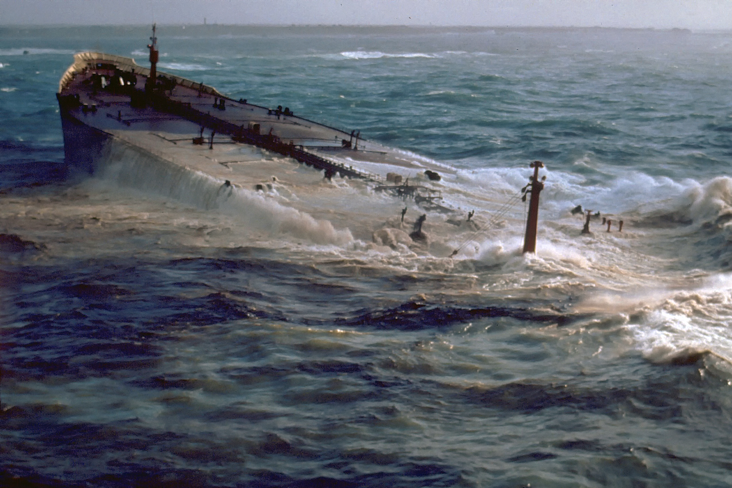 AMOCO CADIZ grounding and oil spill, Brittany, France. Sinking tanker.